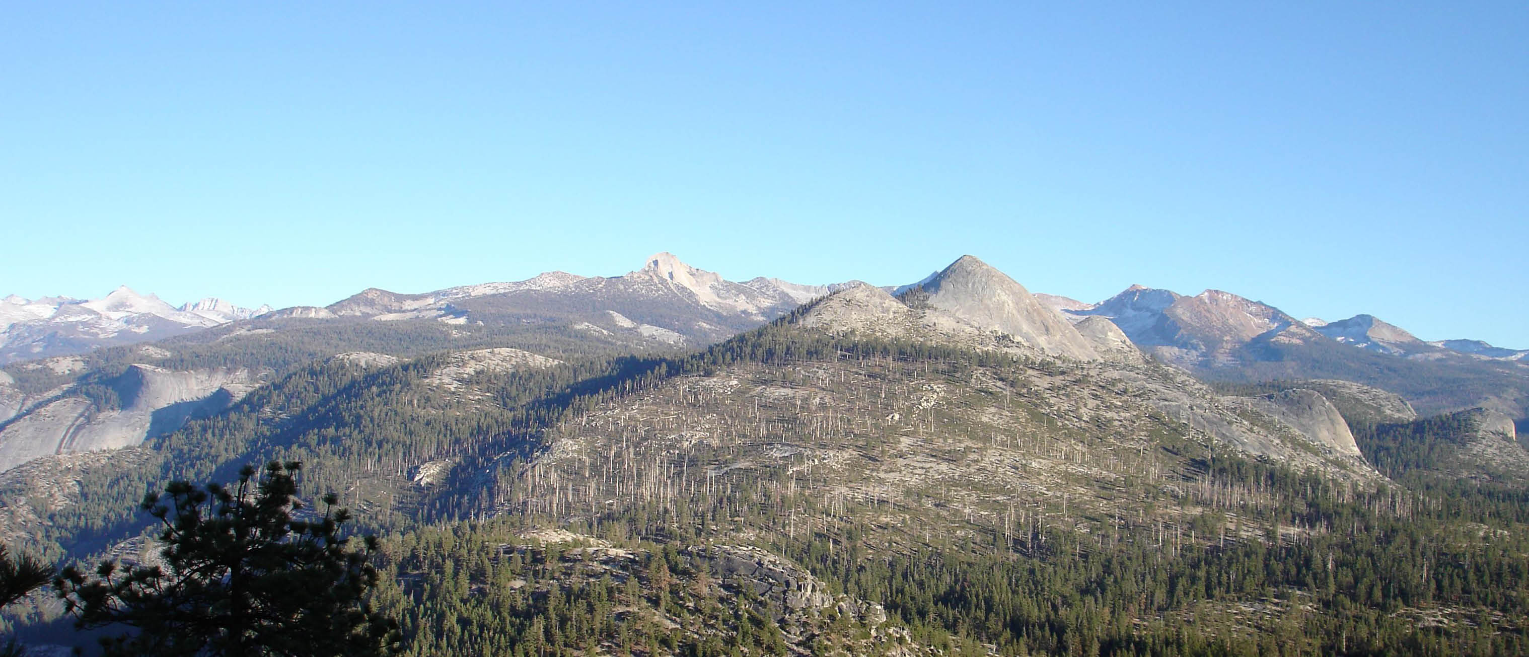 Photograph of Clark Range